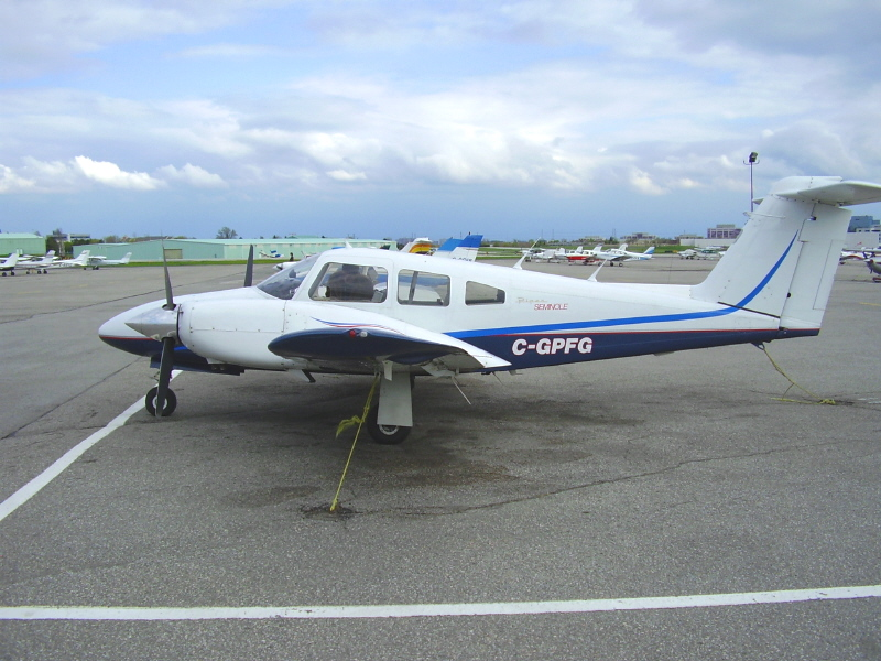 PA44-180 Piper Seminole C-GPFG